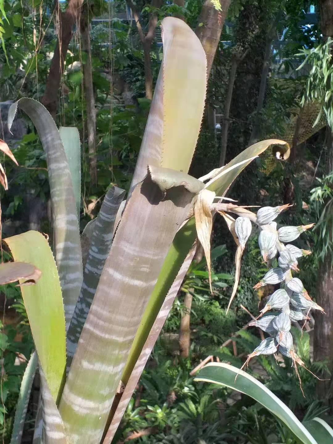 Billbergia vittata Brongniart. Taichung Botanical Garden, Taiwan.